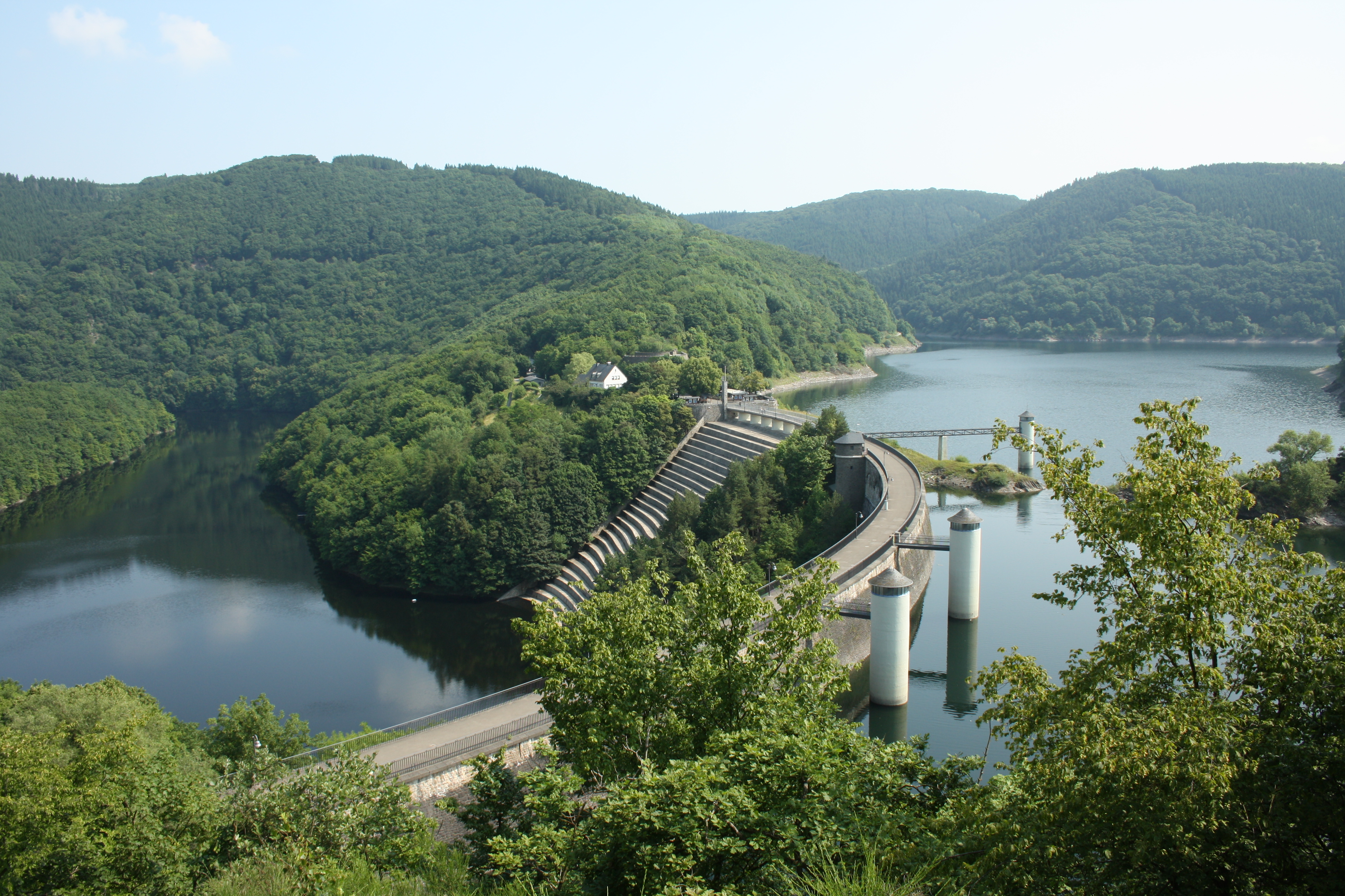 Urft Dam, seen from the southern Bank, Eifel National Park, Germany